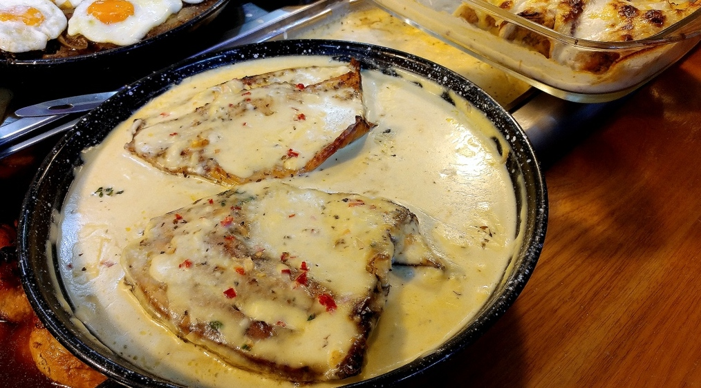 Baked pacú fish.